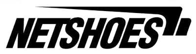 Logo of Netshoes, a Brazilian e-commerce sporting goods conglomerate.